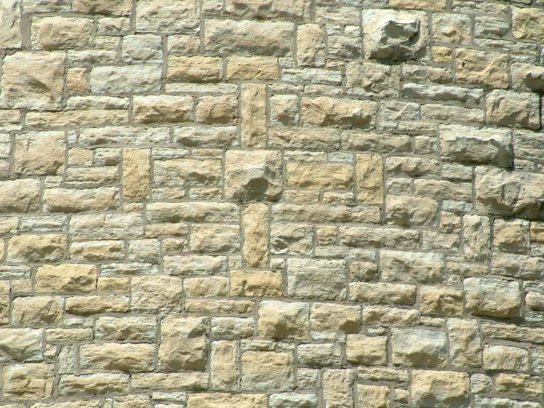 a Greek Cross in the Ypsilanti Water Tower, Ypsilanti MI USA